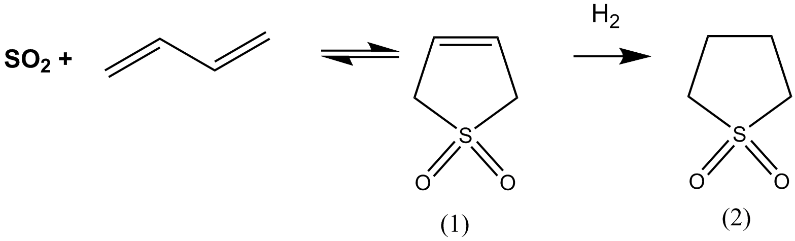 Sulfolane synthesis: sulphur dioxide and 1,3-butadiene form 3-sulfolene (1). This is hydrogenated to sulfolane (2)